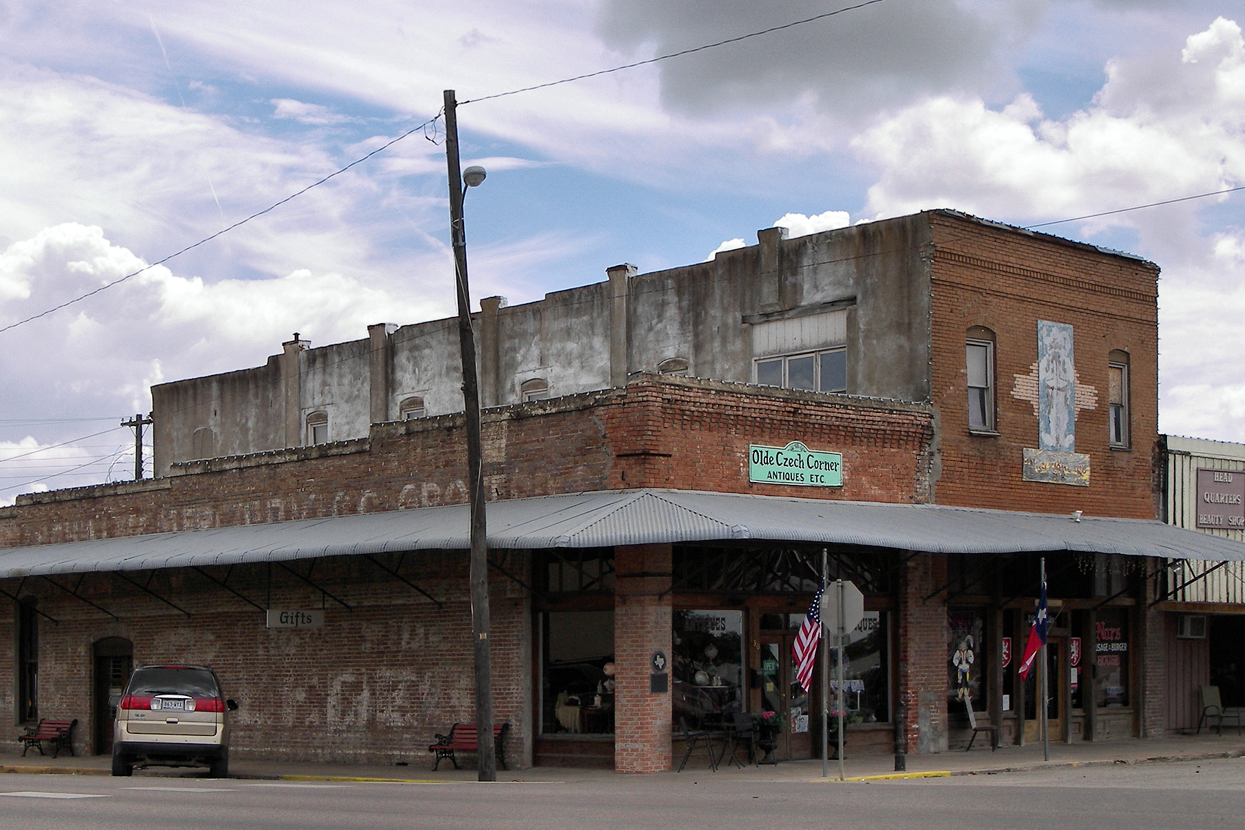 The Groppe Building in West, Texas, United States. The building was designated a Recorded Texas Historic Landmark in 1983.